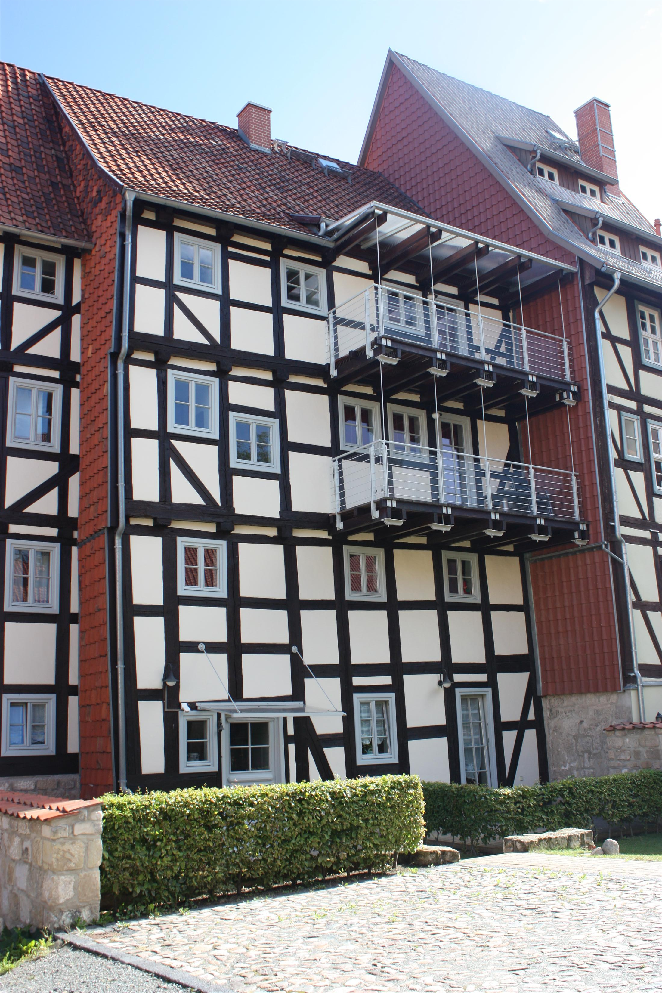 This is a photograph of an architectural monument.It is on the list of cultural monuments of Quedlinburg Quedlinburg Lange Gasse